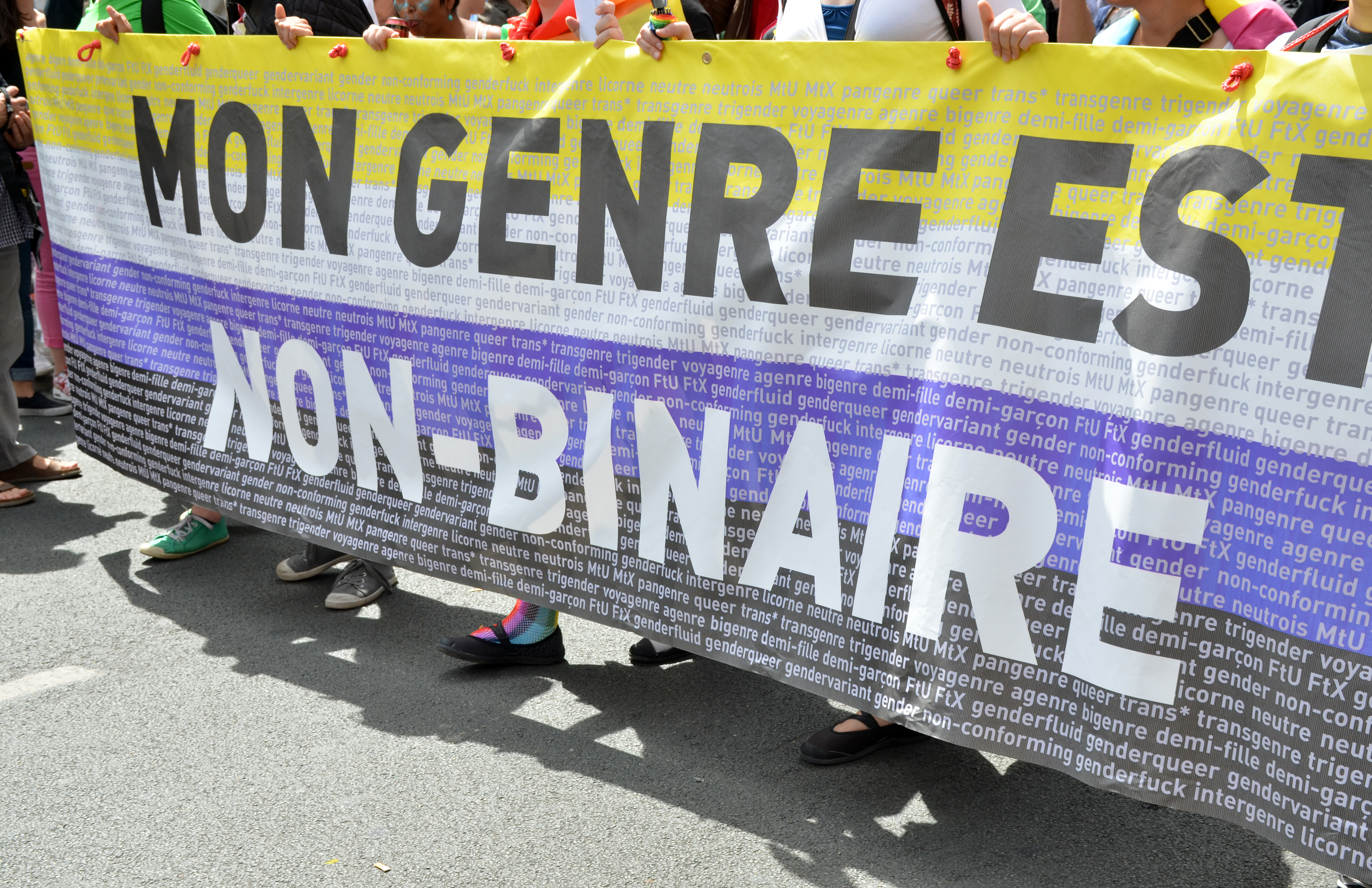 Photograph taken during the Marche des Fiertés LGBT de Paris ( Paris Gay Pride ), the 2d of July 2016.